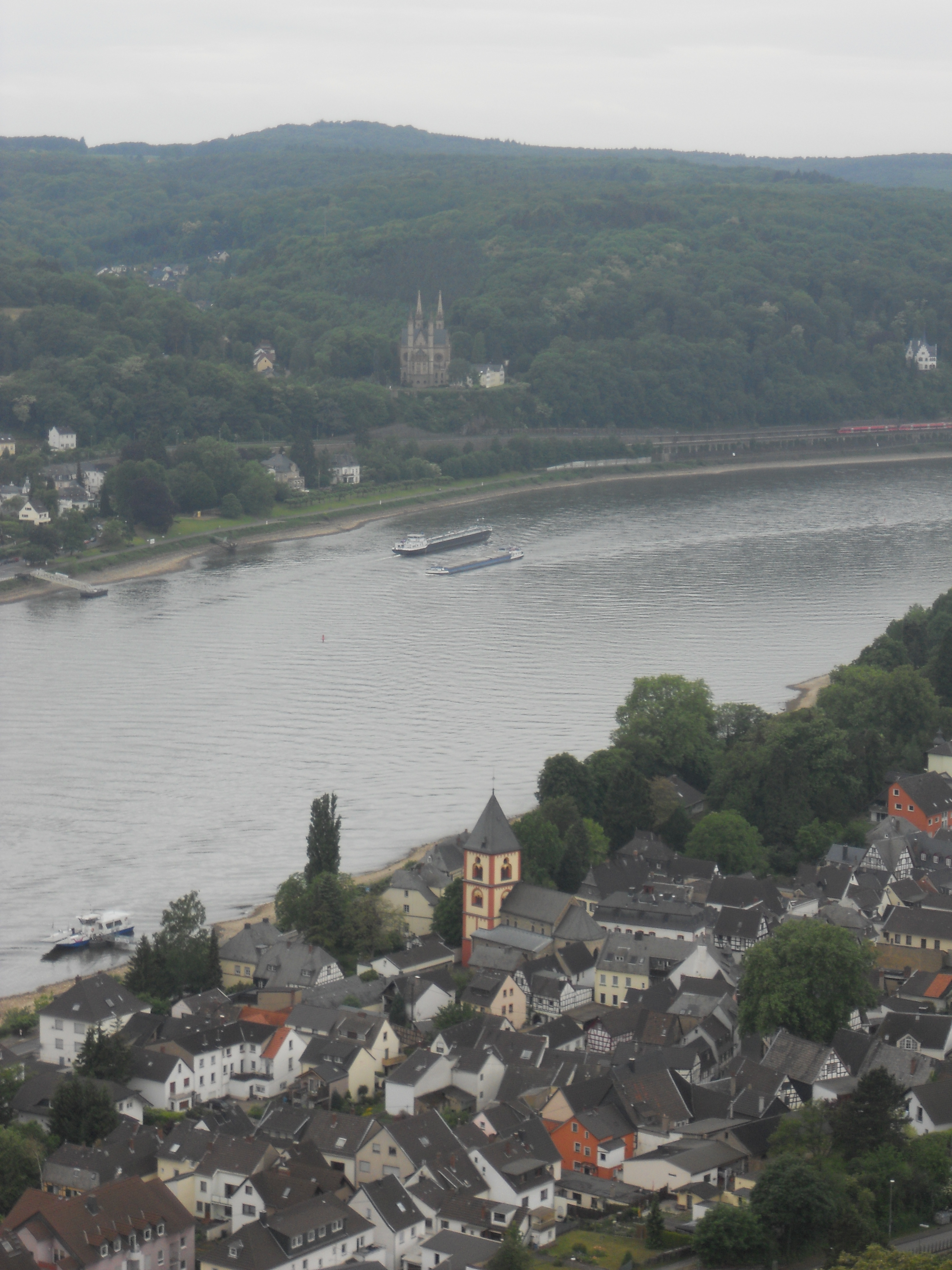 Rhine between Remagen (other side) and Erpel (this side)